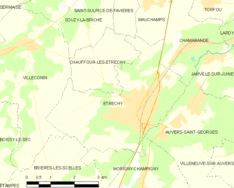 Map of French municipality Étréchy